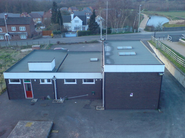 Birds eye view A view not seen by Moira's firefighters for a few years - the fire station roof from the new drill tower.